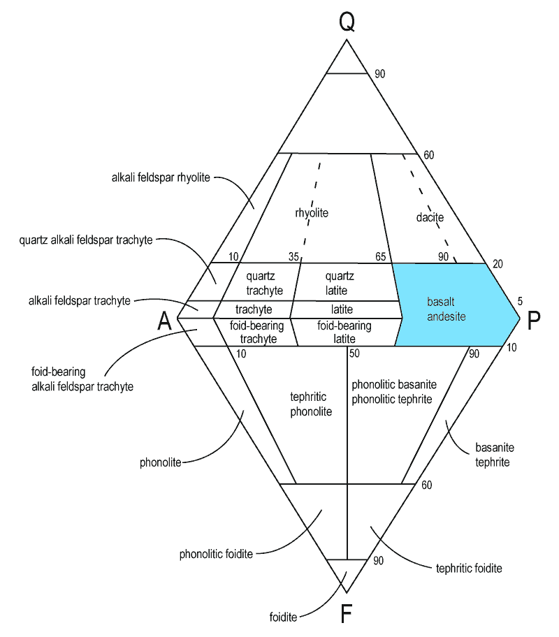 Andesitaren kokapena QAPF diagraman. Location of Andesite in QAPF diagram